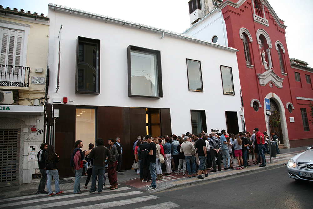 Front door of the Museum Jorge Rando